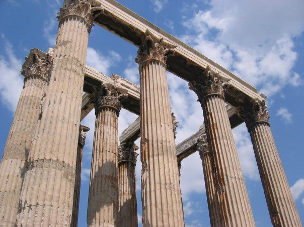 View of the Temple of Olympian Zeus, Athens: the most substantial surviving part of the temple. Photo taken by Dominique Leuenberger April 2007